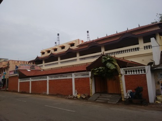 Kumbakonam veda padasala கும்பகோணம் வேத பாடசாலை